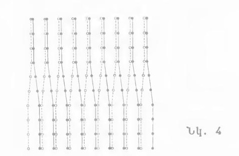 Նկար 4